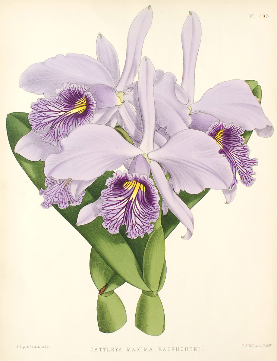 The Greatest Cattleya